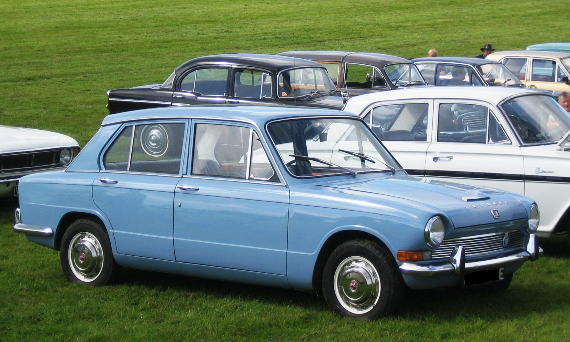 Triumph 1300 at a classic car show in Herfordshire. Registration letter indicates registration during the first eight months of 1967 which probably was the car's the first registration. In England, unless the car is exported overseas, car normally retain the same license plate for life.